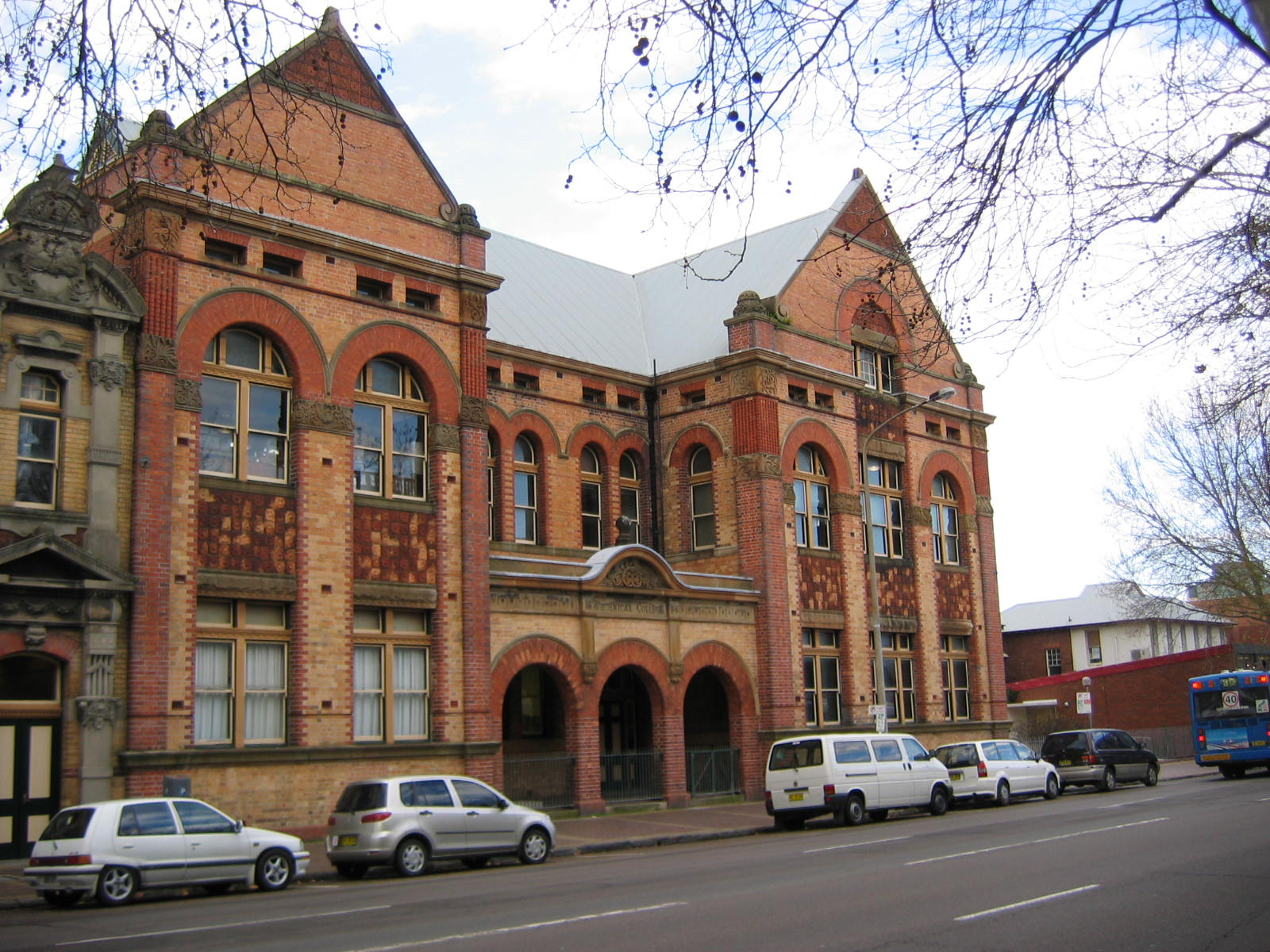 Hunter Street campus (Newcastle CBD) of the Hunter Institute of Technology, Newcastle, New South Wales.